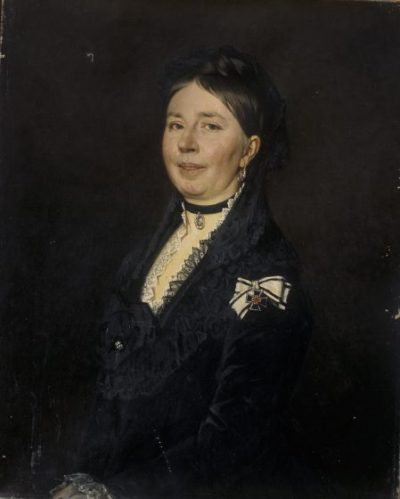 Sophia Nolken, born Stackelbergi (1825-1909)